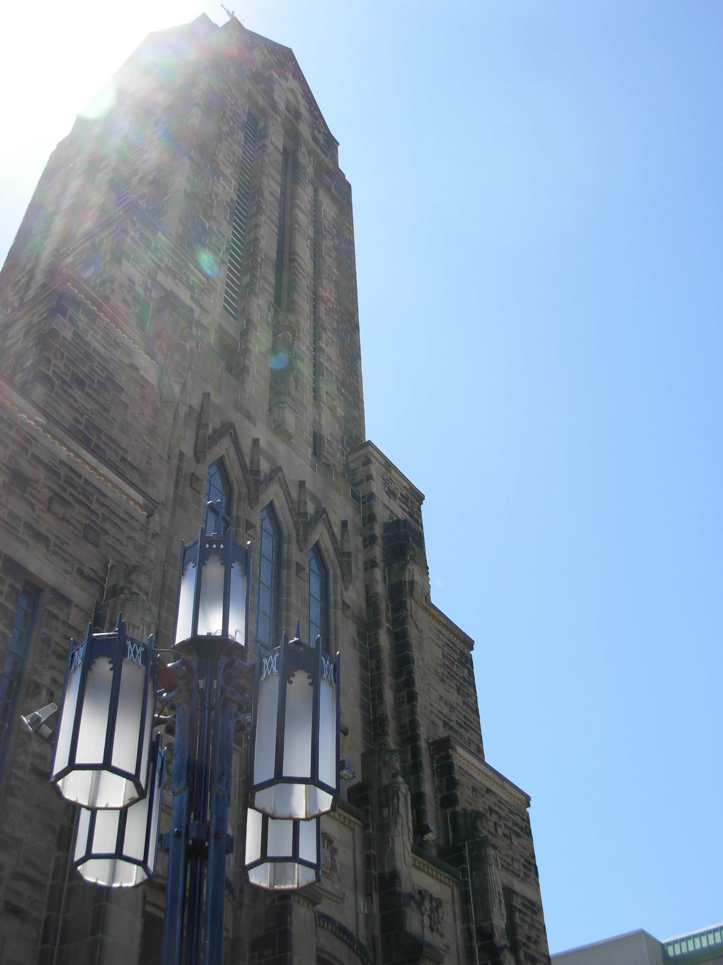 The cathedral in Moncton